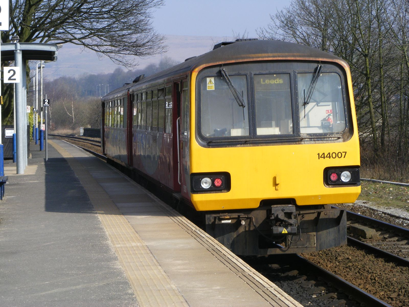 See where this picture was taken. [?]